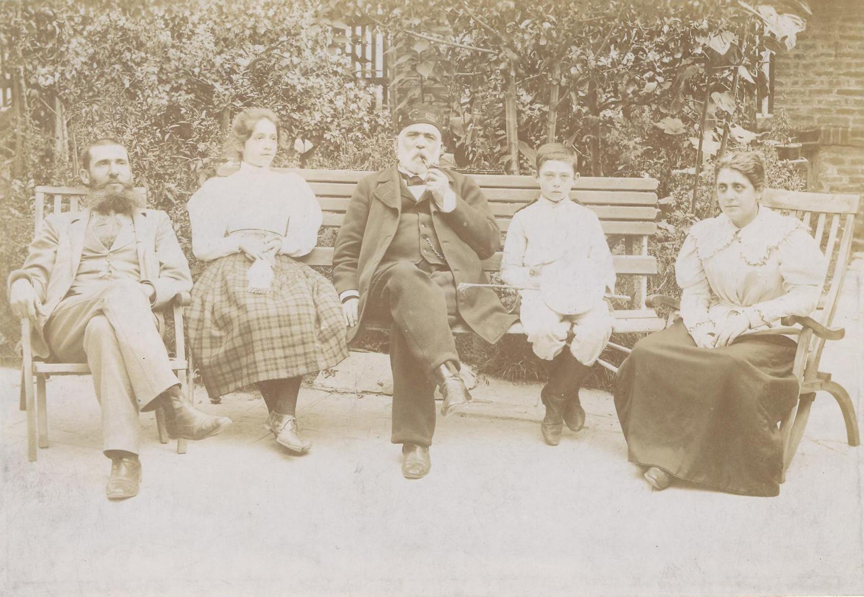 Dragan Tsankov with his daughter Nedyalka and her husband Alexandar Lyudskanov and their children - Radka and Konstantin